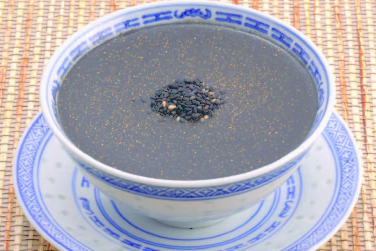 Sesame paste